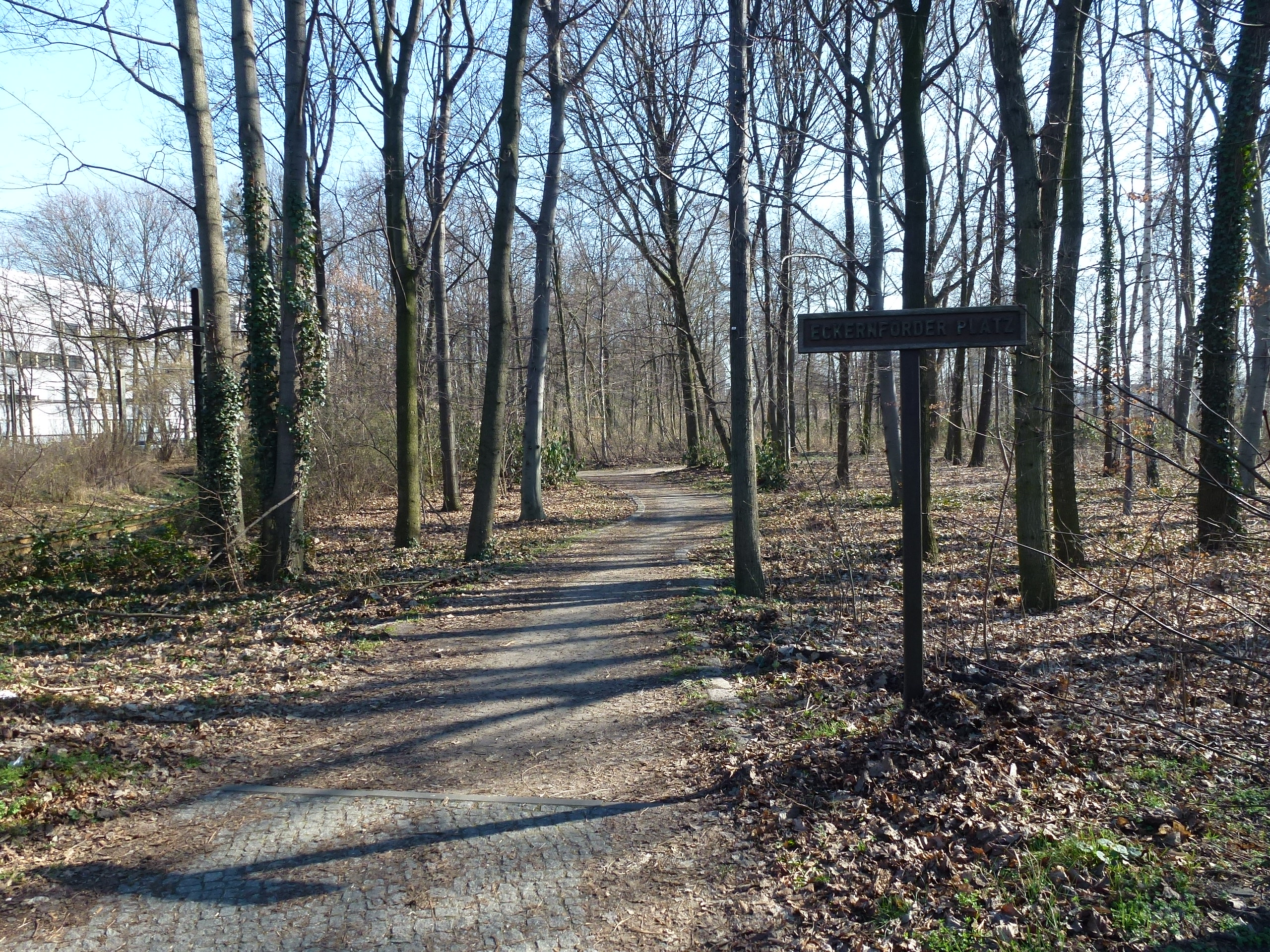 Berlin-Wedding Eckernförder Platz